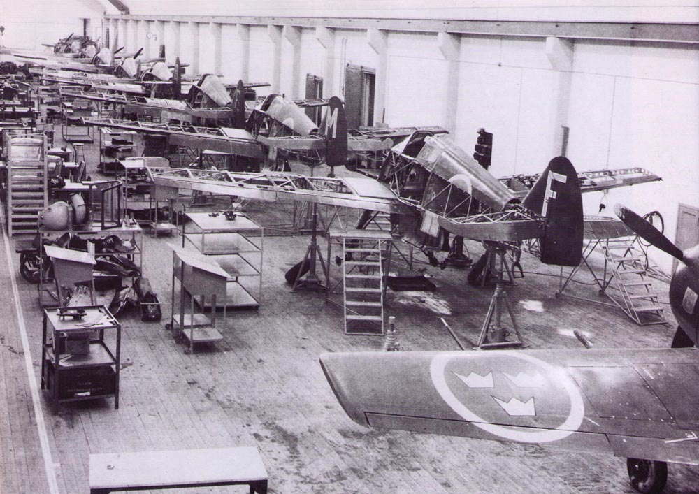 FFVS J22 under modification to S22 at CVA in Arboga, Sweden